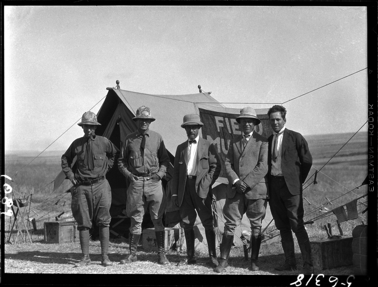 Expedition members, left to right, C. Suydam Cutting, Jack Baum, [unidentified, probably Wilfred H. Osgood], Louis A. Fuertes, Alfred Bailey. Tent and Field Museum flag in background. 1927. Name of Expedition: Daily News Abyssinian Expedition Participants: Wilfred Osgood, Louis Agassiz Fuertes, C. Suydam Cutting, Jack Baum, Alfred M. Bailey Expedition Start Date: September 7, 1926 Expedition End Date: May 20, 1927 Purpose or Aims: Zoology Mammals and Birds Location: Africa, Ethiopia [Abyssinia] Original material: 4x5 inch interpositive film Digital Identifier: CSZ56318 Learn more about The Field Museum's Library Photo Archives.